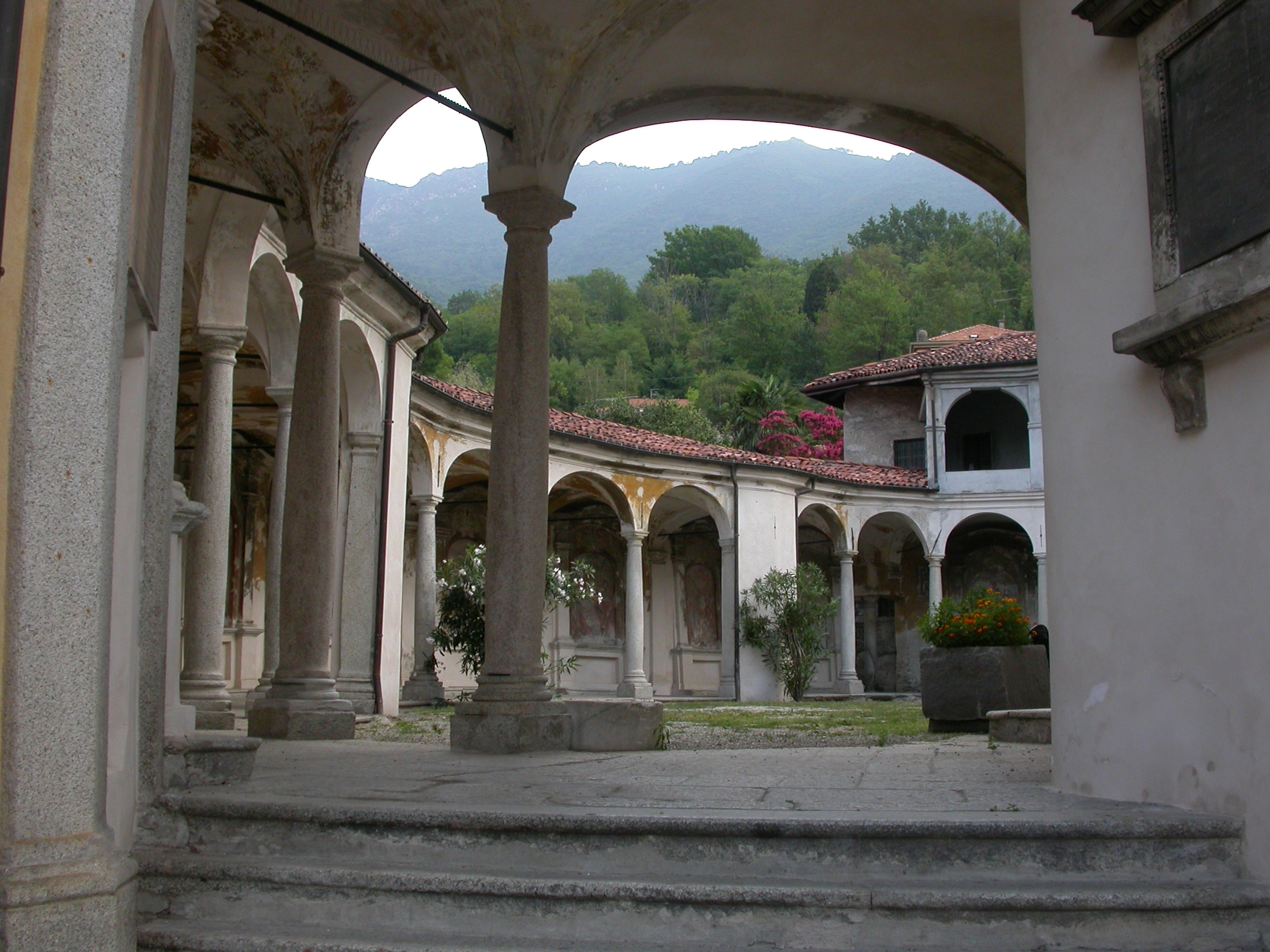 The portico of Chapels